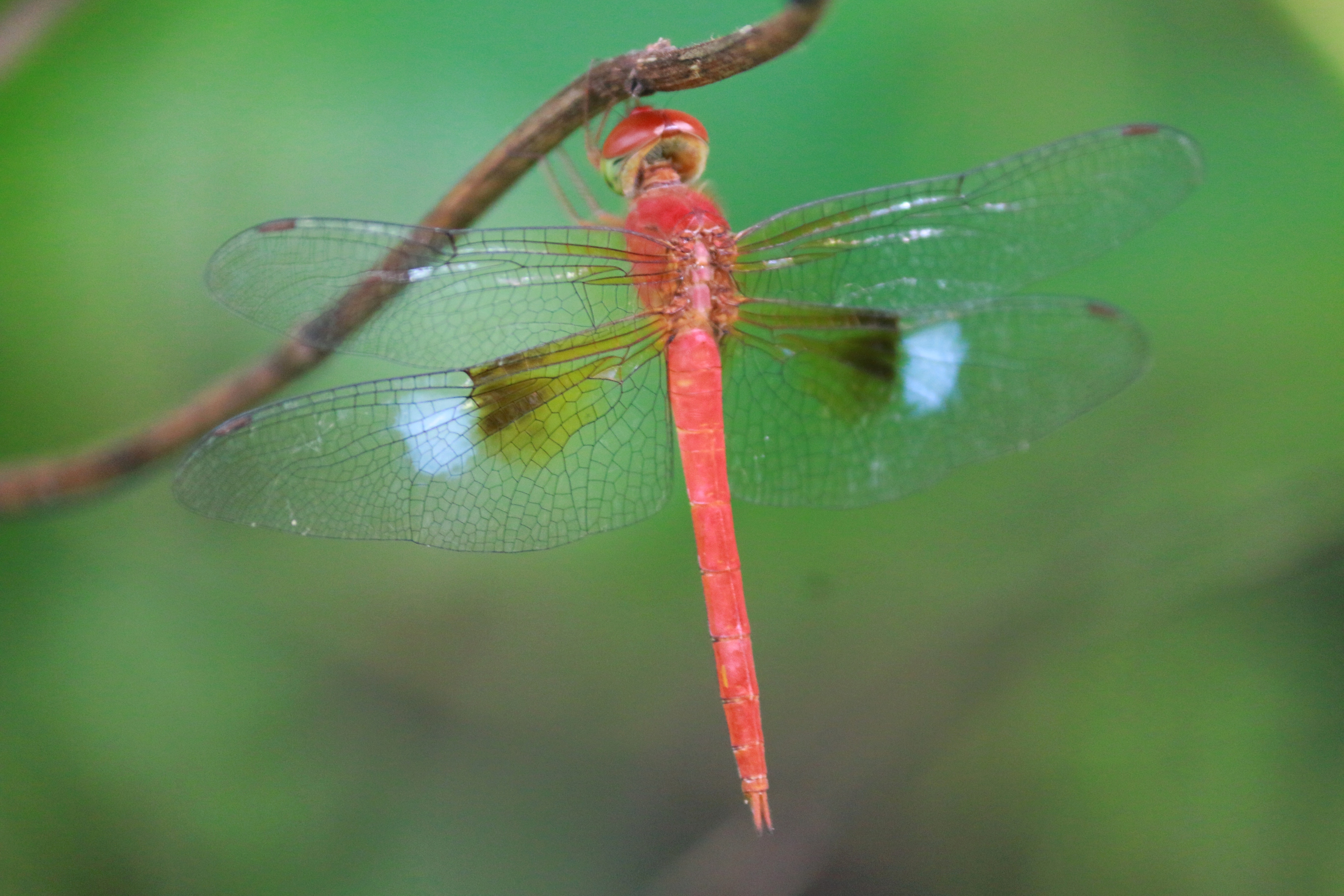 Tholymis tillarga,Coral tailed cloudwing